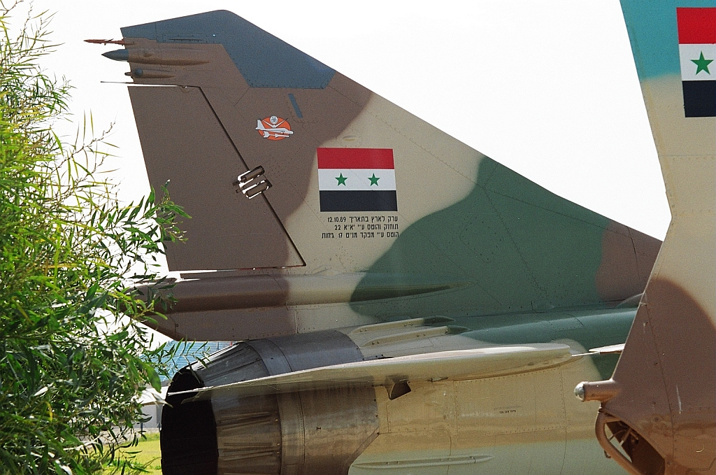 Tail of former Syrian Air Force MiG-23 at Israeli Air Force Museum in Hazerim. Besides Syrian flag also bears Israeli Air Force Flight Test Center emblem and caption : "Defected on October 10, 1989, maintained and flown by aerial maintanance unit 22, flown by FTC commander 17 sorties".